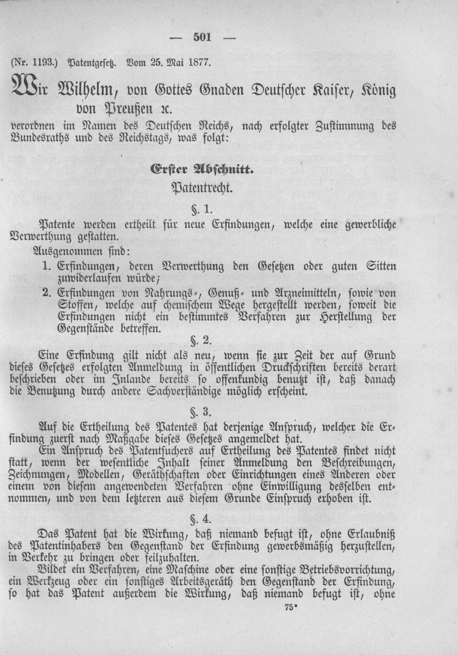 Scan from the Imperial Law Gazette of Germany, 1877